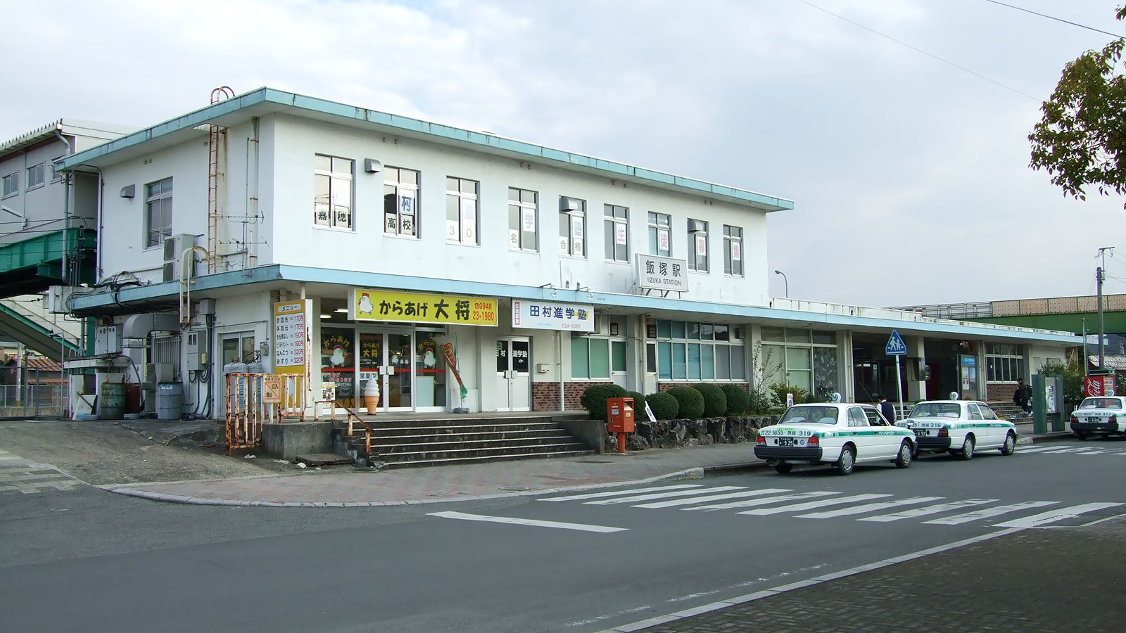 Iizuka Station, Chikuho Main Line, Kyushu Railway Company.